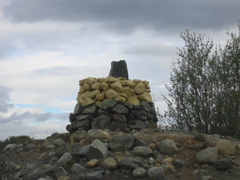 Border rock marking the border between Norway and Finland